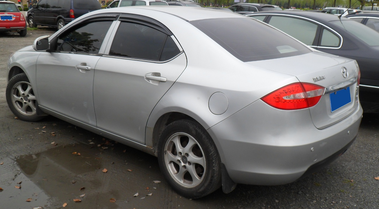 JAC Heyue photographed in Anting, Shanghai municipality, China.